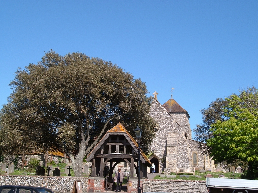 Rottingdean church in East Sussex, UK